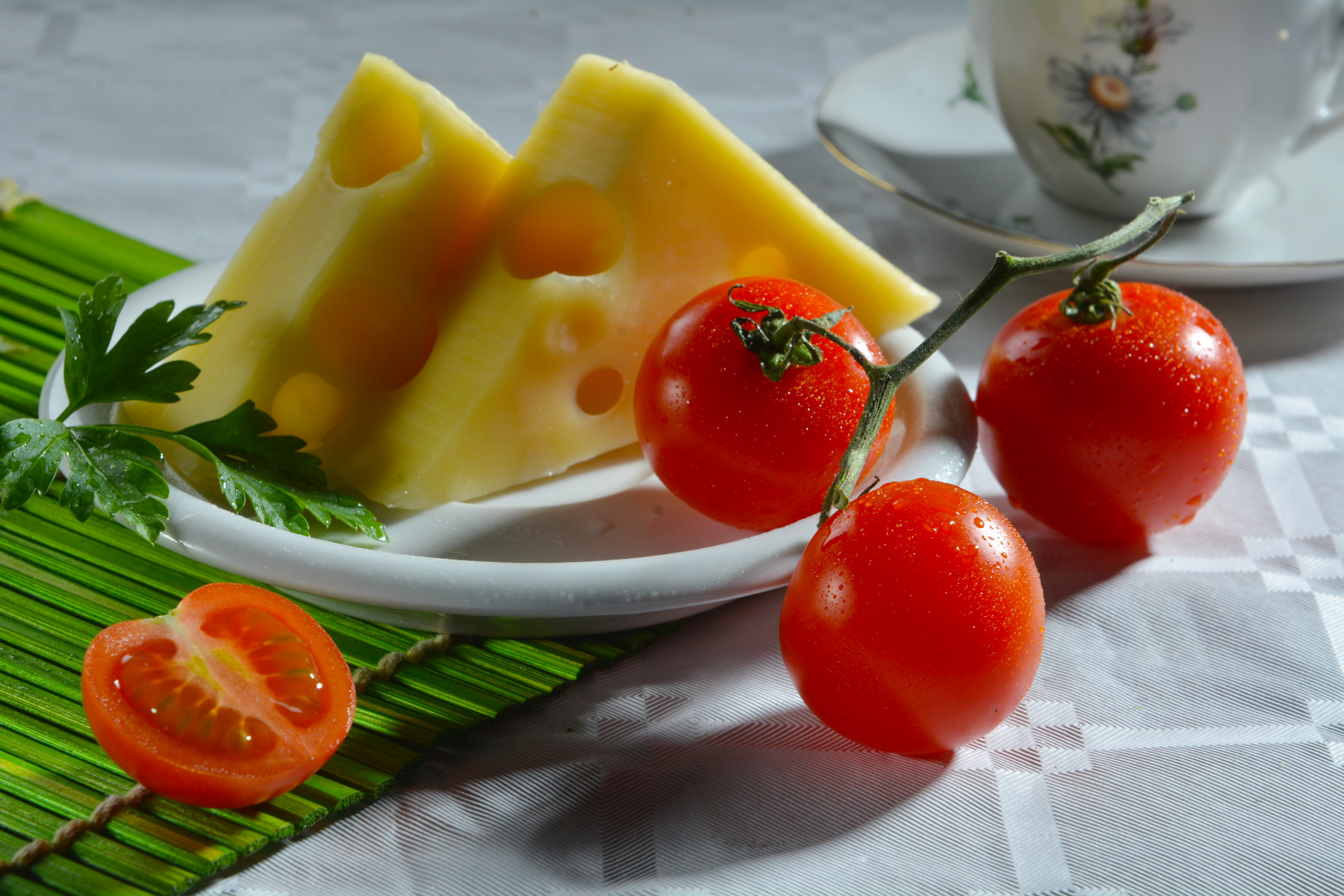 Cheese and Tomatoes